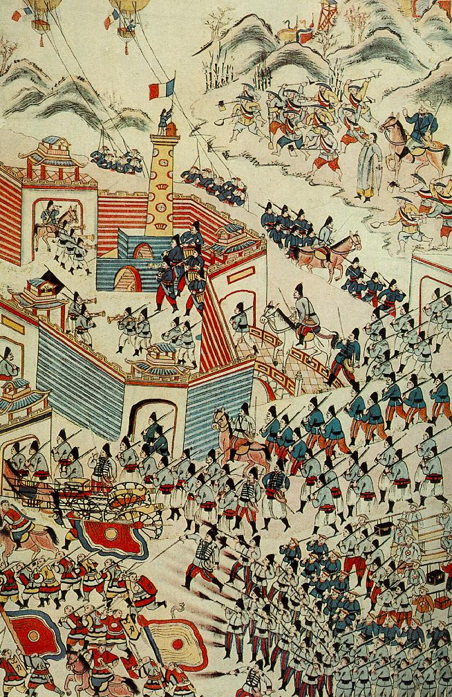 The French assault on Hung Hoa citadel (Capture of Hung Hoa, 1884).